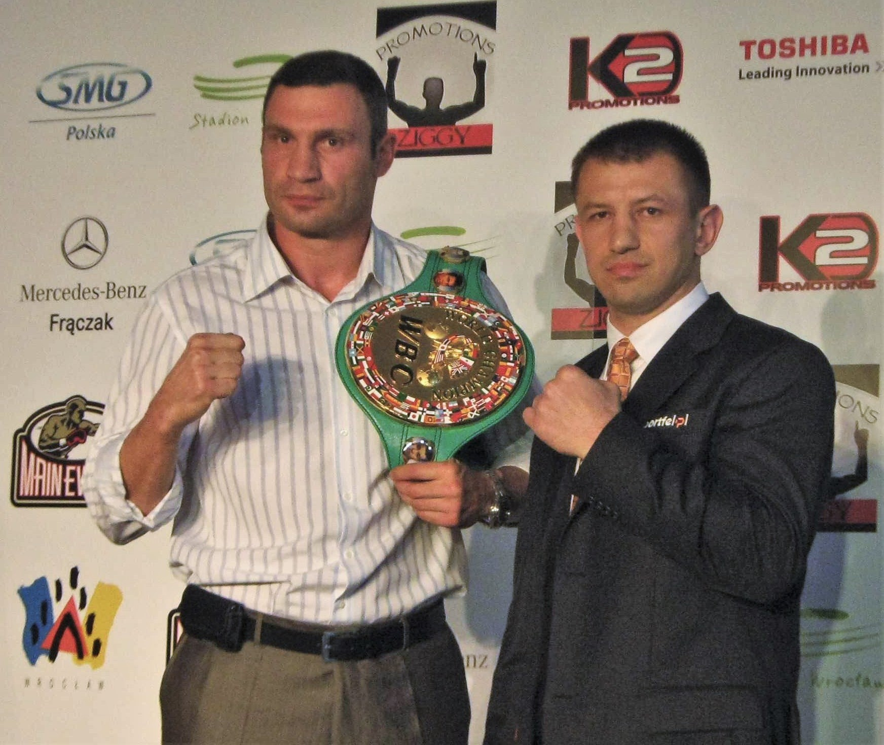 Vitali Klitschko (boxer from Ukraine) and Tomasz Adamek (Polish boxer). During signing for the fight in 2011, Wrocław, Poland.